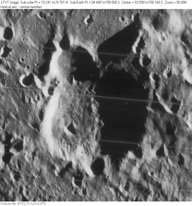 Crater Blanchard on the LO-IV-193H image